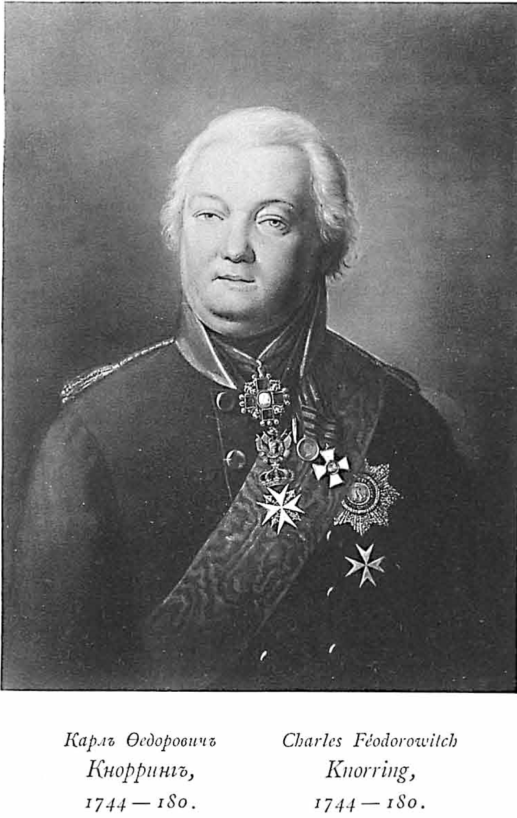 Karl Fedorovich Knorring, 1746-1820